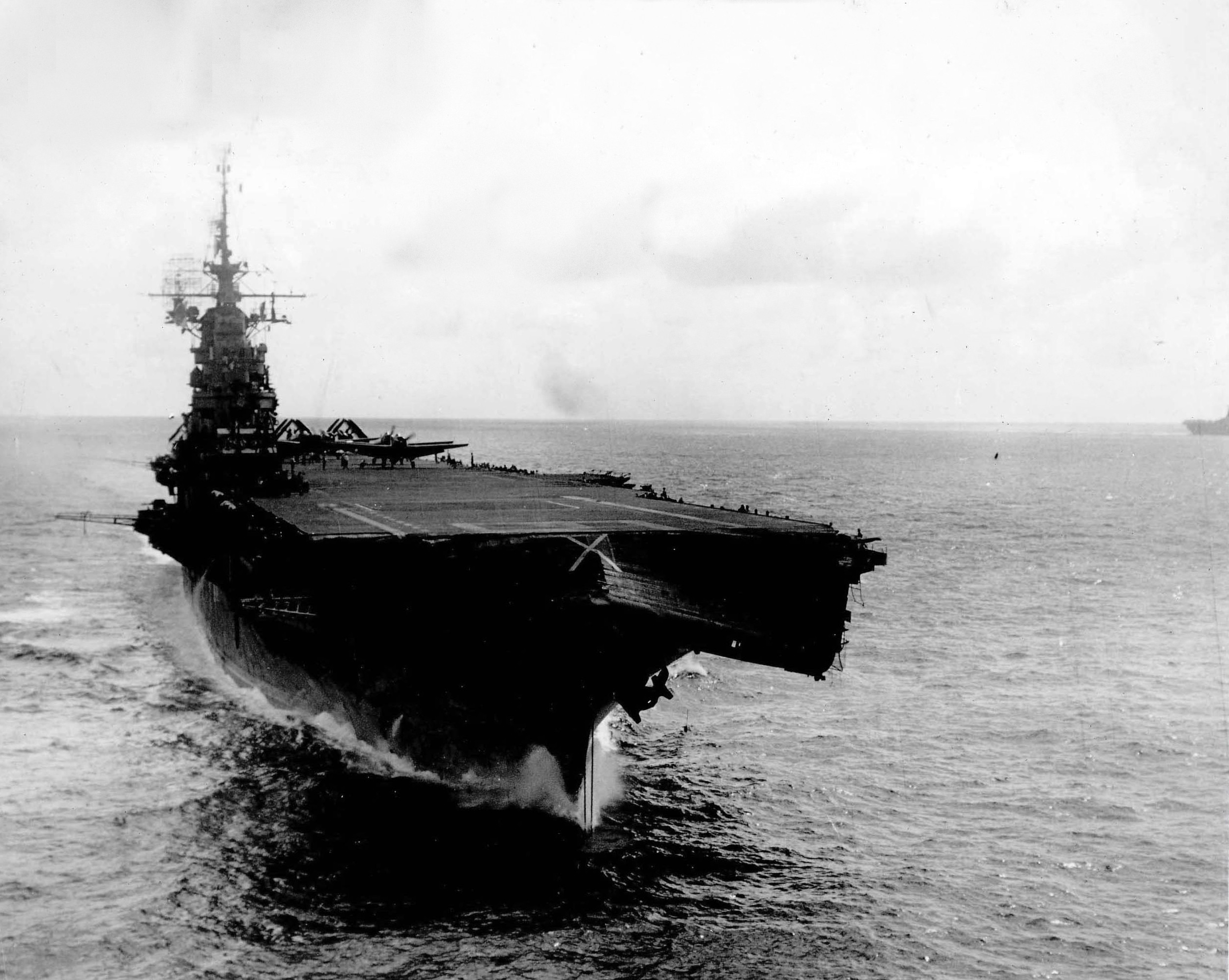 The U.S. Navy aircraft carrier USS Wasp (CV-18) showing her damage received during a typhoon off Japan on 26 August 1945. Note that the "X" identification letter of her air group is painted on her flight deck and not her hull number "18".